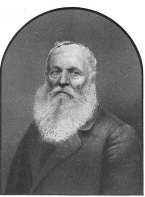 Image of Joseph Palmer, one of the founding members of the short-lived commuinty Fruitlands. From a daguerreotype (no artist or date listed). From Bronson Alcott's Fruitlands by Clara Endicott Sears. Boston: Houghton Mifflin Company 1915. Page 56